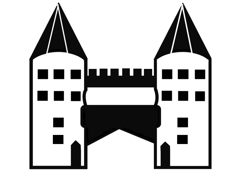 88.Infanterie Division, Vehicle Insignia, German Army, World War II